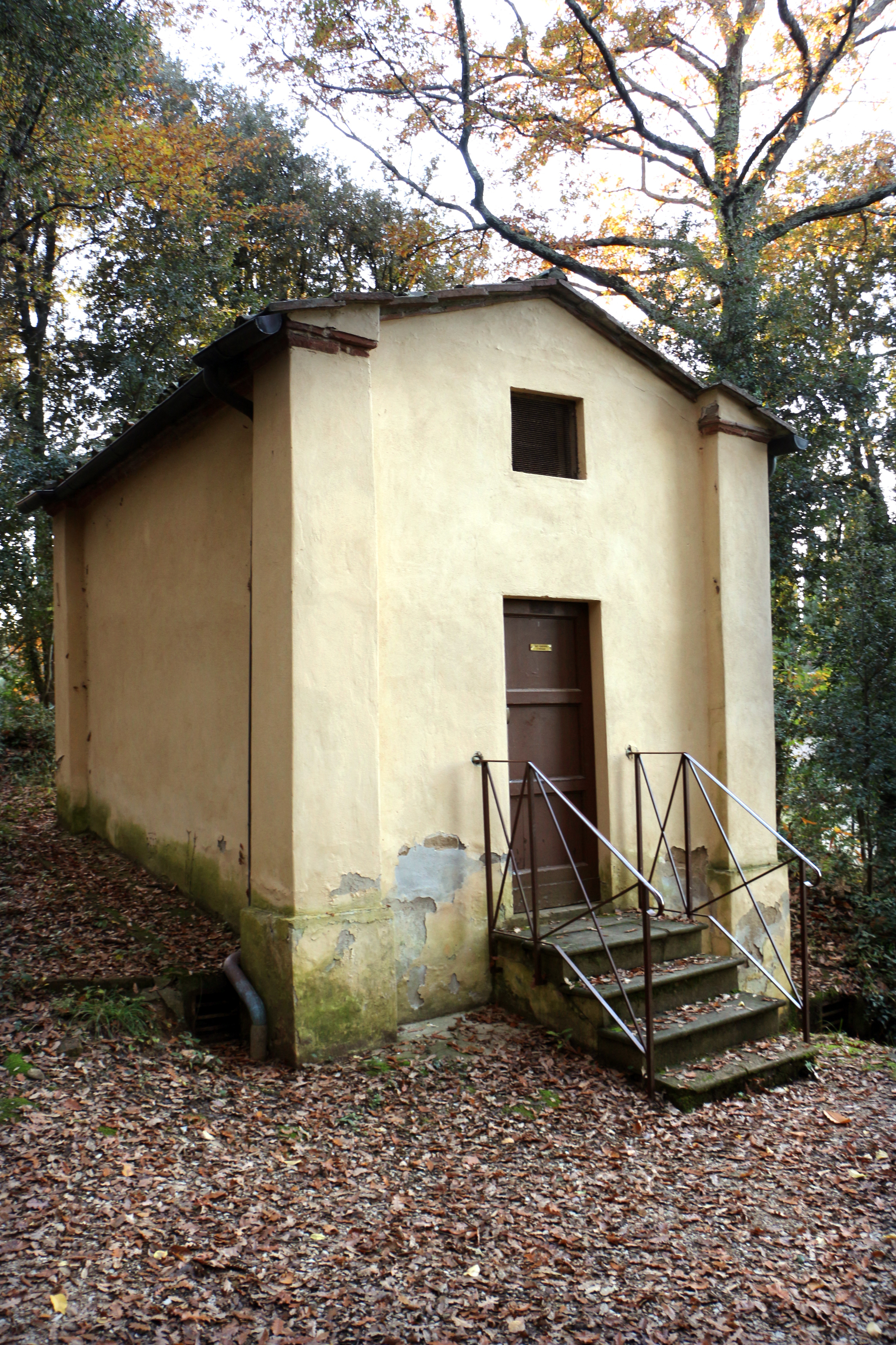 San Vivaldo Sacro Monte